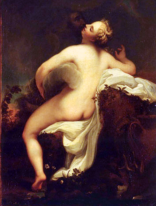 Copy of Io and Jupiter by Corregio